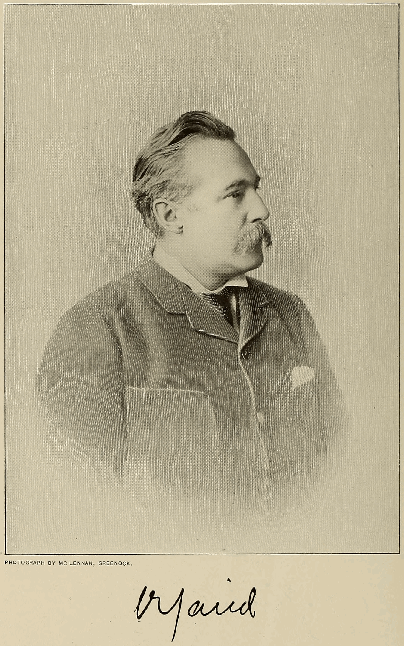 Cassier's Magazine of August 1897 was a special "Marine Number". The opening pages featured photographs of the writers involved, including this of Robert Caird, who was the author of an article on page 341-350, titled The Launching of a Ship.